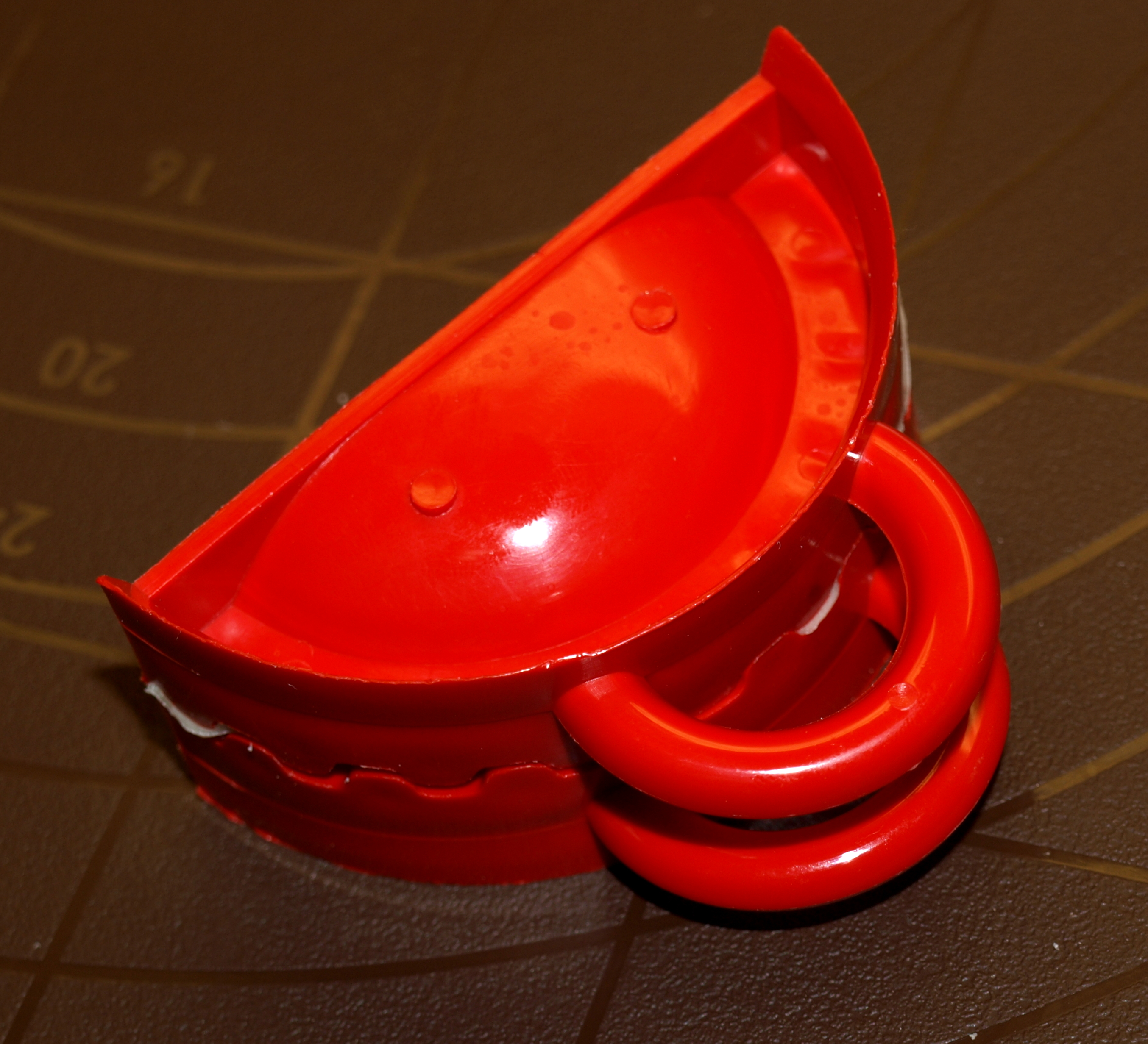 Sealing a pierogi in a crimping tool.